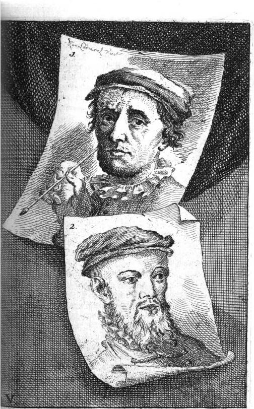 P237 V Allard Klaaszen - Doove Barend